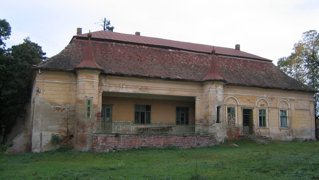 a mansion formerly belonging the the Wekerle and the Petala families in Clopodia, Romania